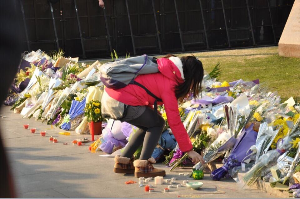 A girl mourning for the victims.